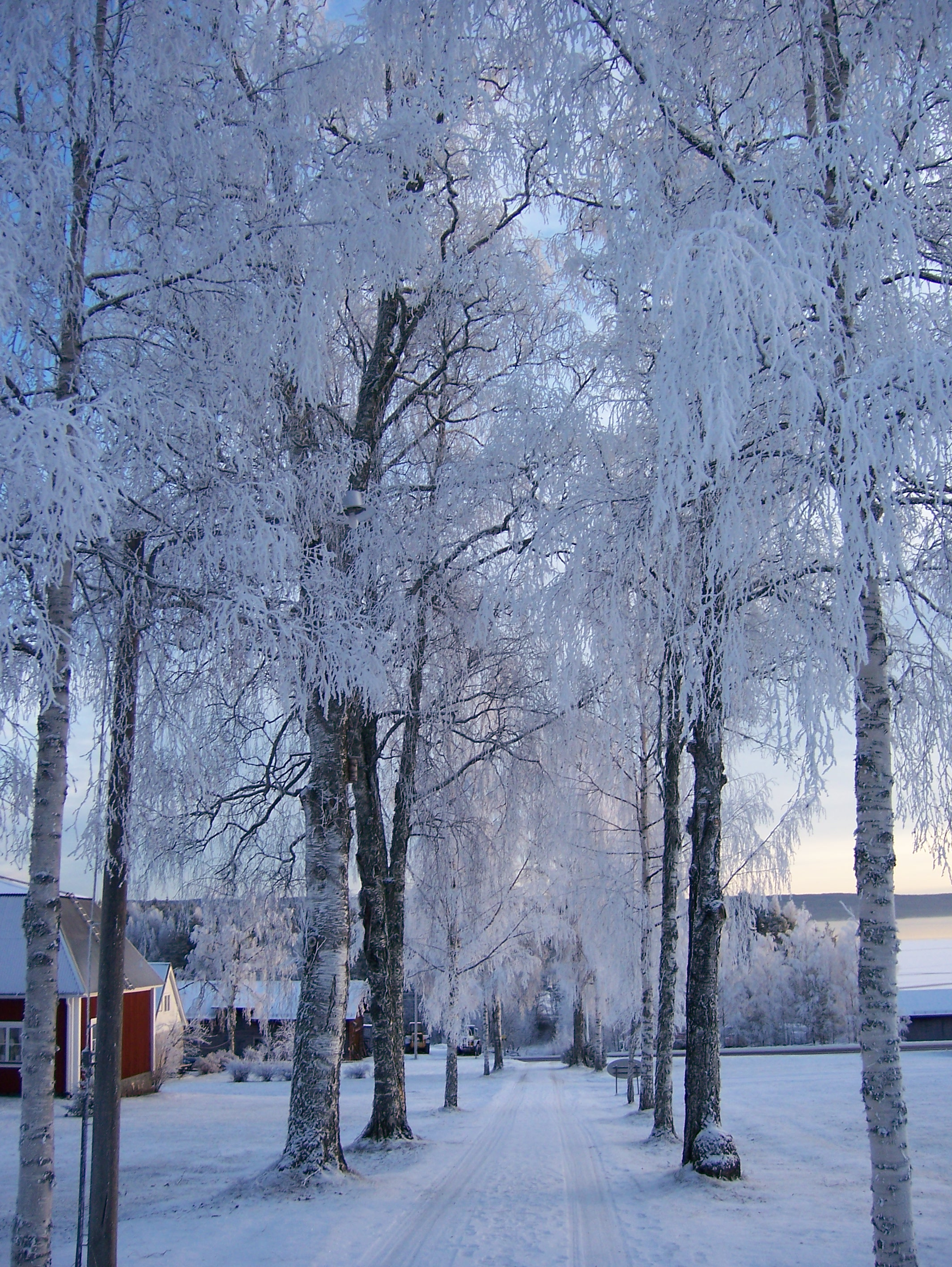 View of frozen tree-lined avenue in Bäcka Herrgård with Lake Siljan in background.